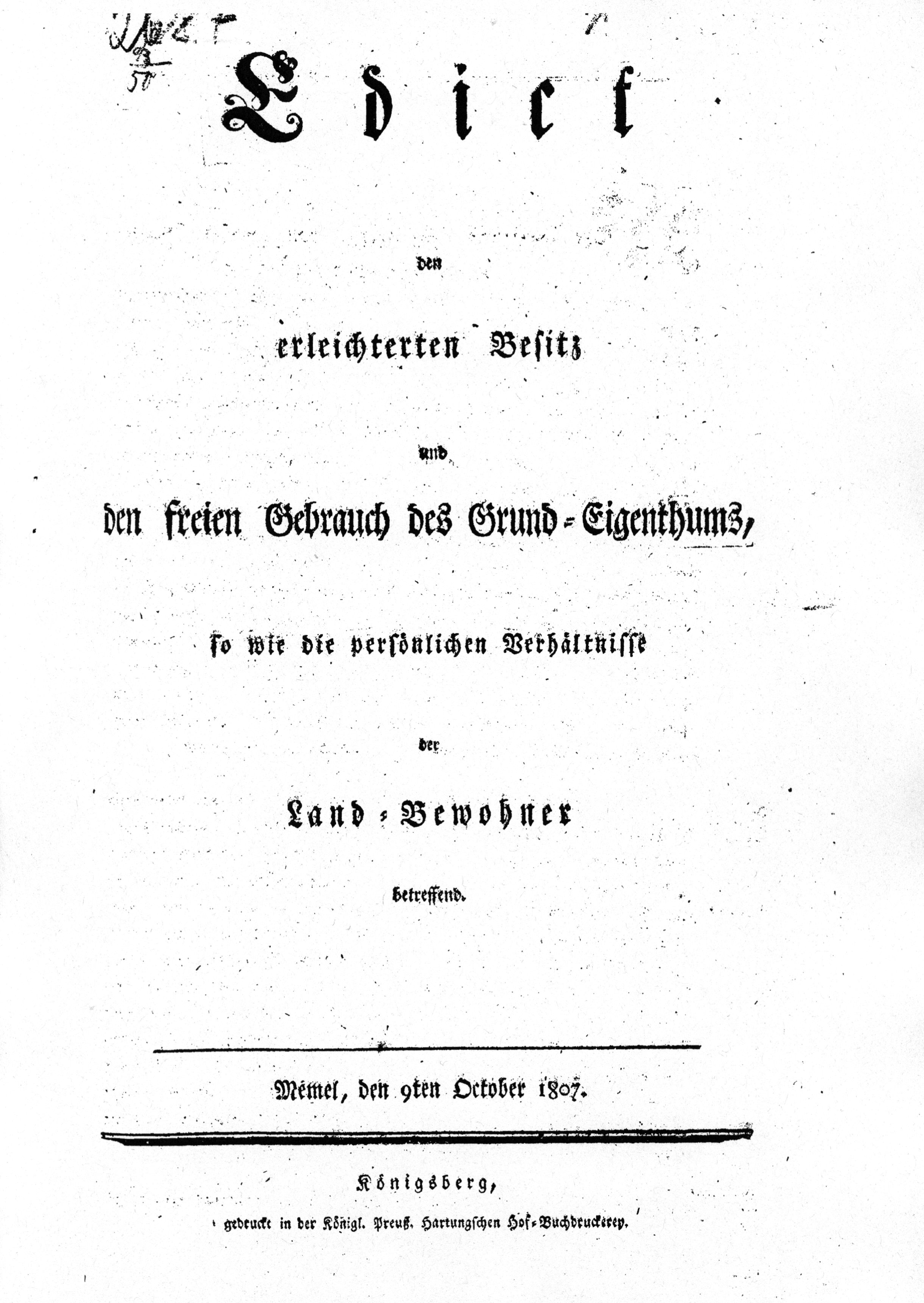 Frederick William III, King of Prussia: Edict, den erleichterten Besitz und den freien Gebrauch des Grund-Eigenthums, so wie die persönlichen Verhältnisse der Land-Bewohner betreffend. Memel, October 9th, 1807. Title page of the edict